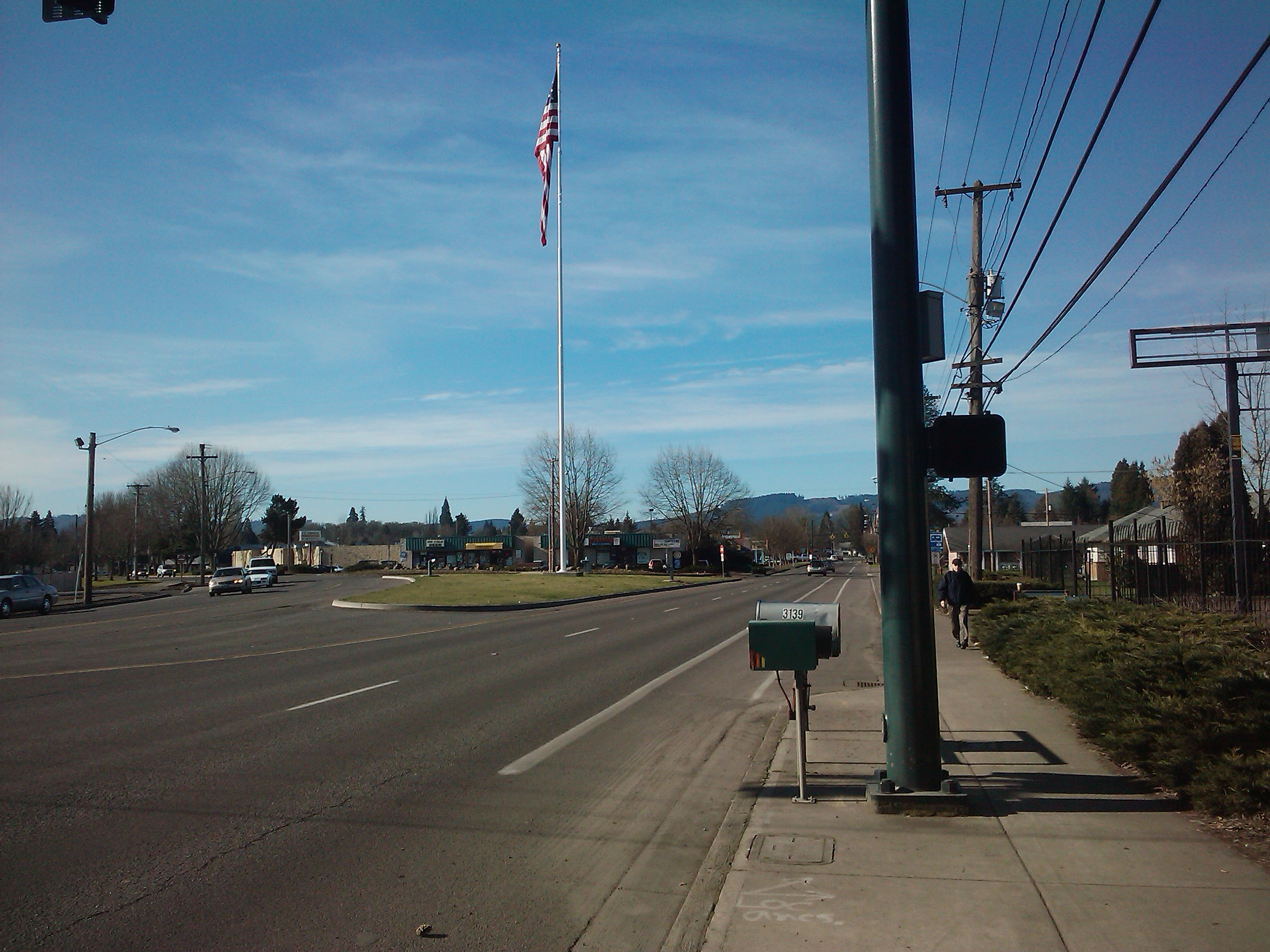 The 120-foot flagpole in Forest Grove, Oregon, on Pacific Avenue between Maple & Laurel Streets, looking west.